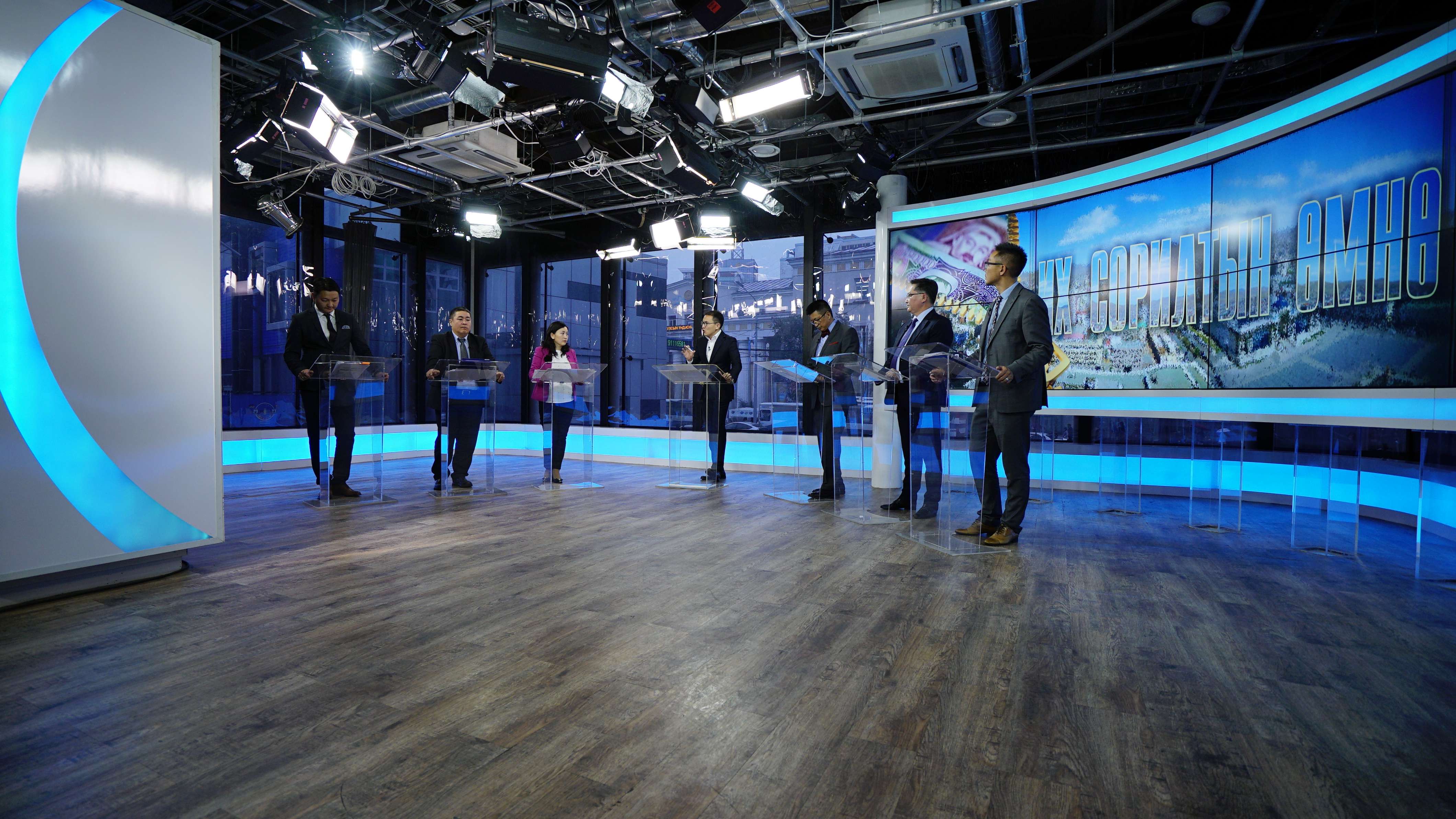 Lkhagva Erdene hosting a debate program on Mongol TV